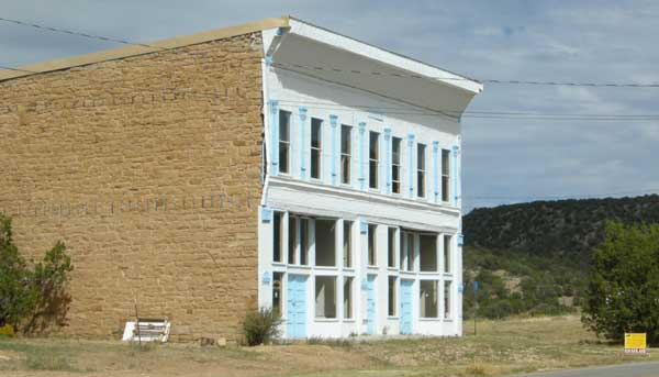 Contributing property to White Oaks Historic District — New Mexico.